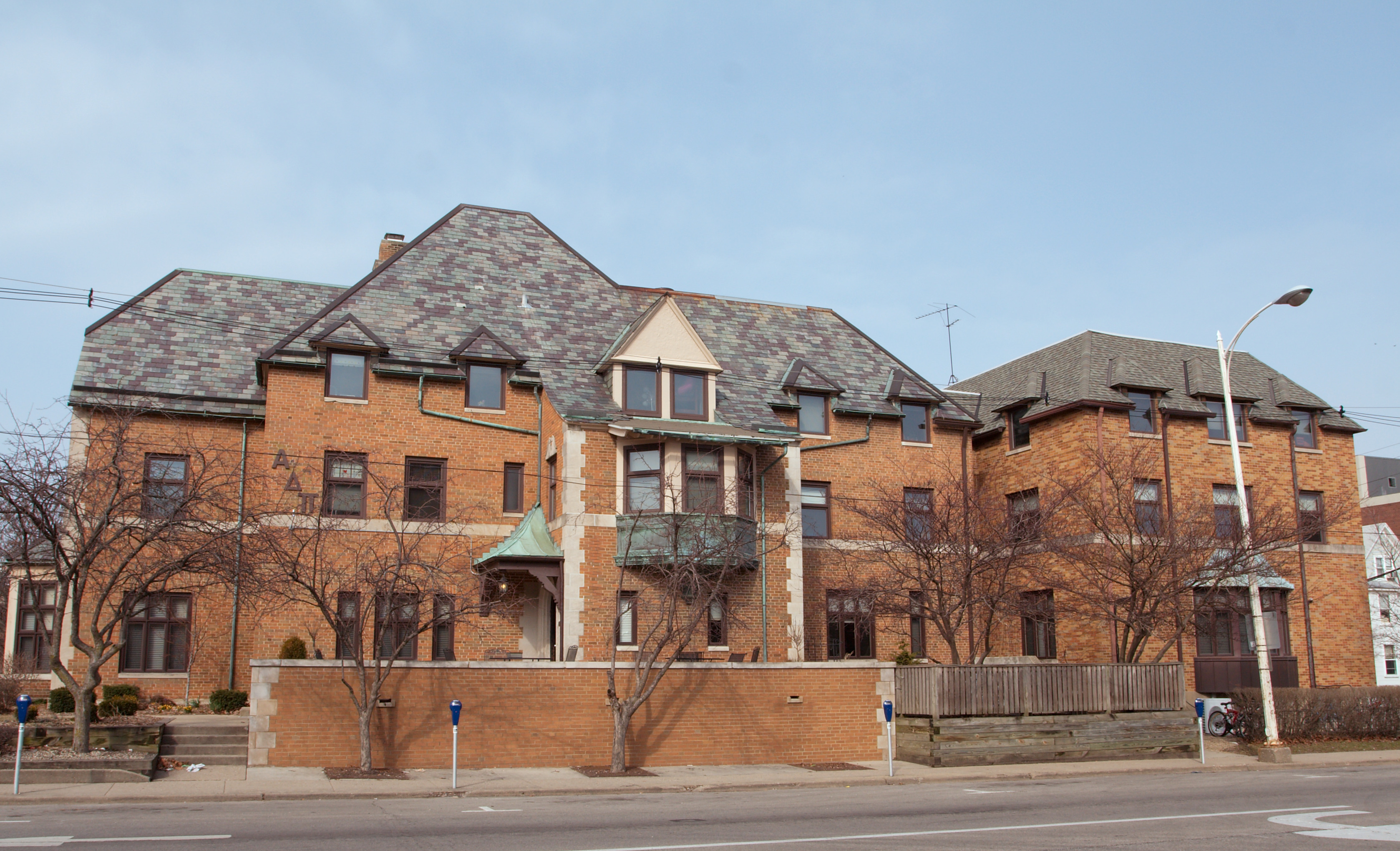 Urbana, IL Alpha Delta Pi Sorority House (added 2000 - Building - #00001333) 1202 W. Nevada St., Urbana Historic Significance: Architecture/Engineering, Event Architect, builder, or engineer: Coen, Clare-Alban E.,, Todd, Dee Area of Significance: Education, Architecture Period of Significance: 1925-1949 Owner: Private Historic Function: Education Historic Sub-function: Educational Related Housing Current Function: Education Current Sub-function: Educational Related Housing